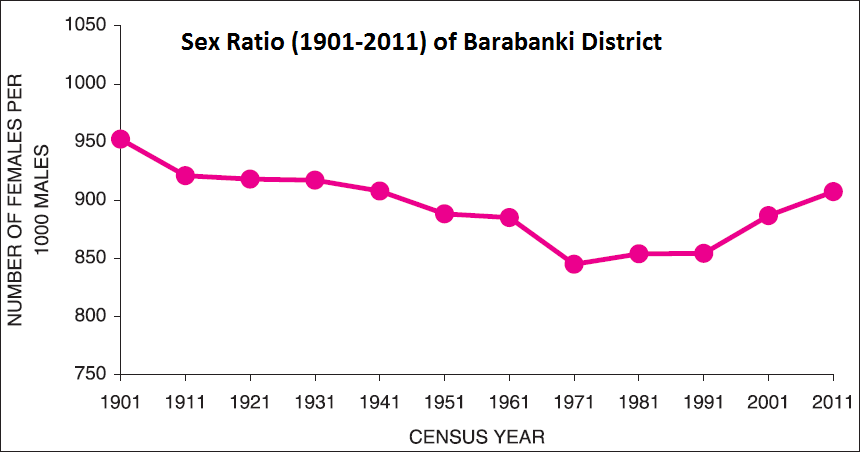 Sex Ratio (1901-2011) of Barabanki District. Data